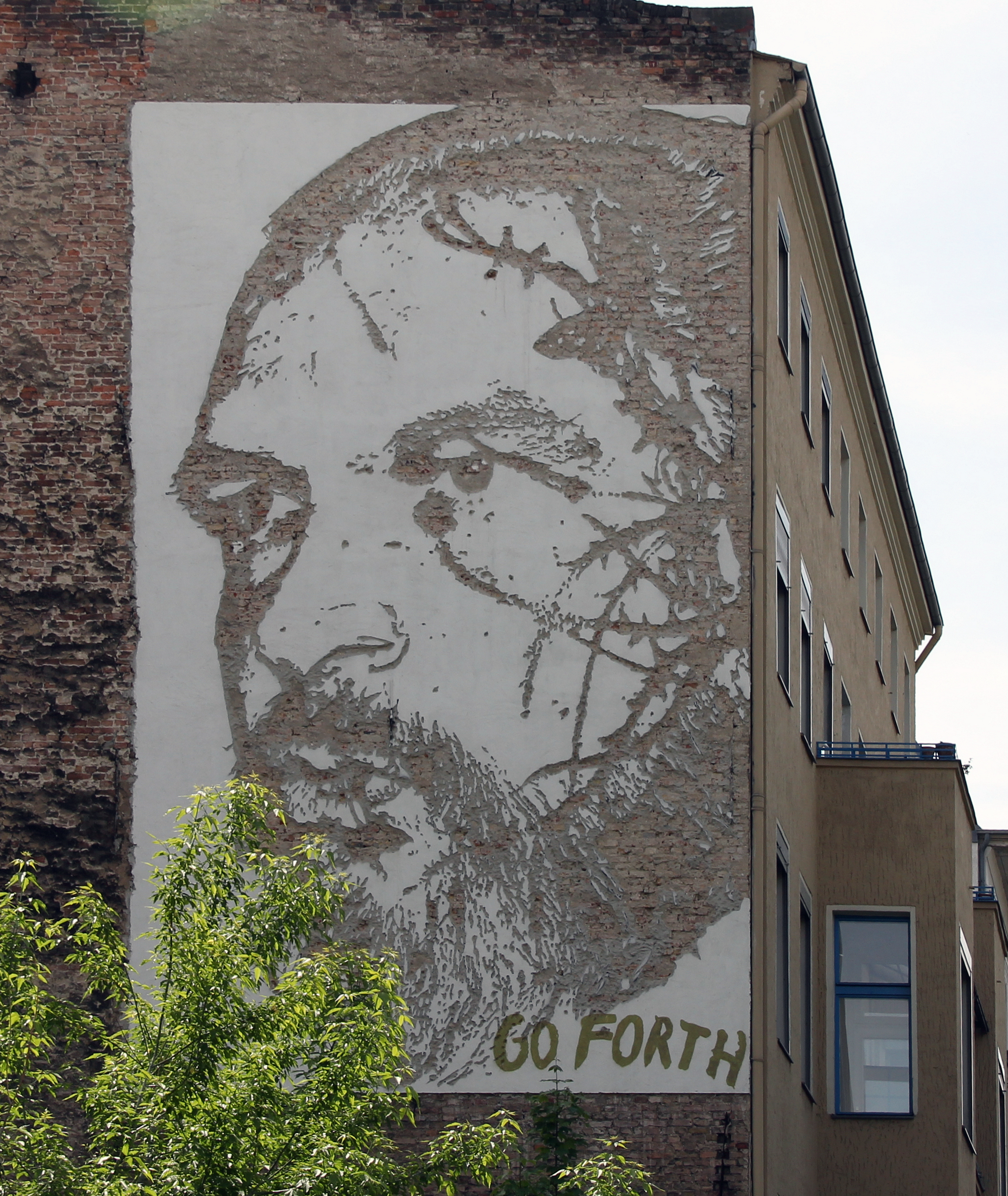 Murals, "Sven Marquardt" by Alexandre Farto, 2010, Potsdamer Straße 151, Berlin-Schöneberg, Germany